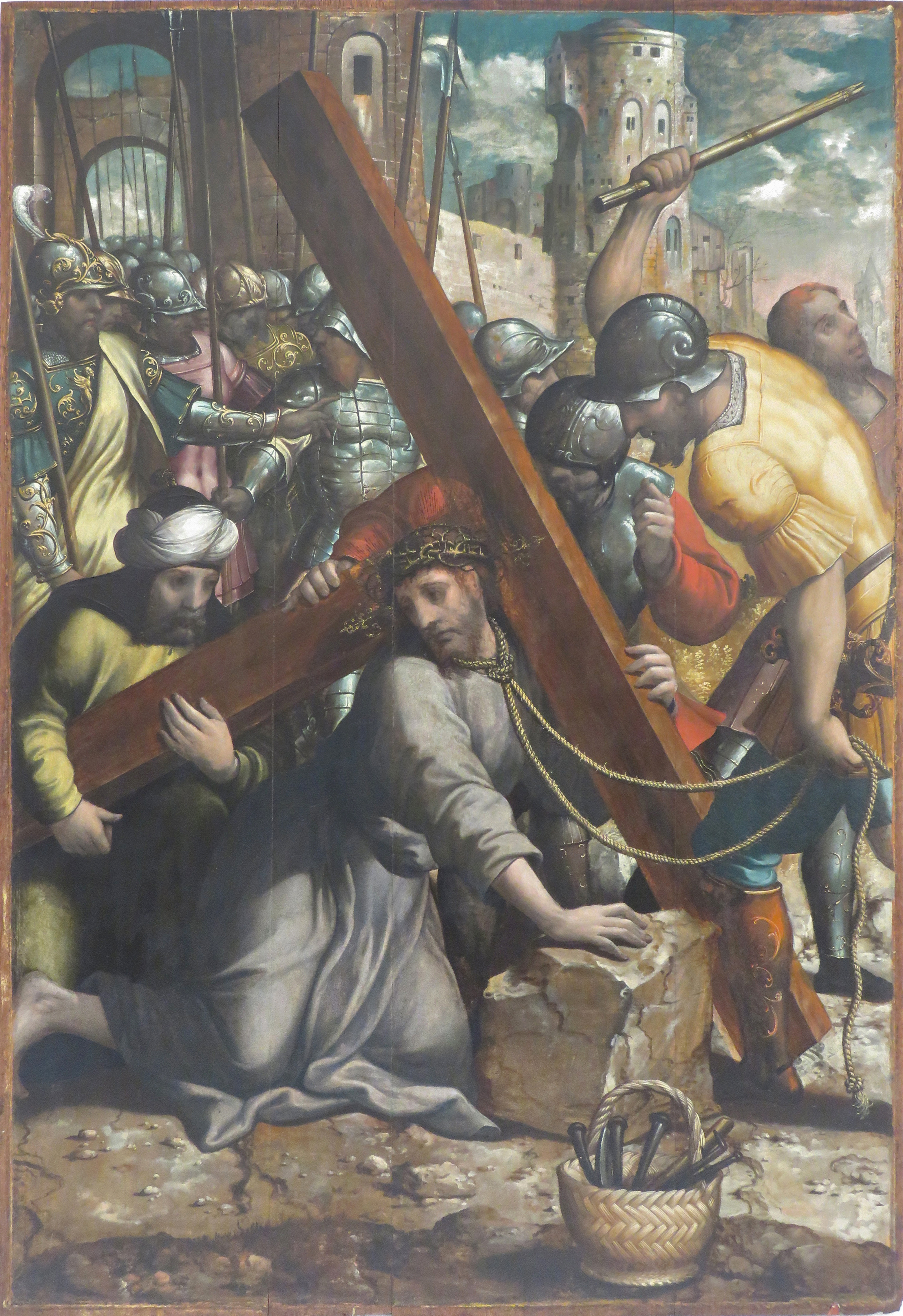 Caminho do Calvário (The Way of Calvary) is a painting of the Polyptych (winged altarpiece) of the Mother Church of Santa Cruz da Graciosa, Azores, painted about 1550 presumably by the Master of Arruda dos Vinhos